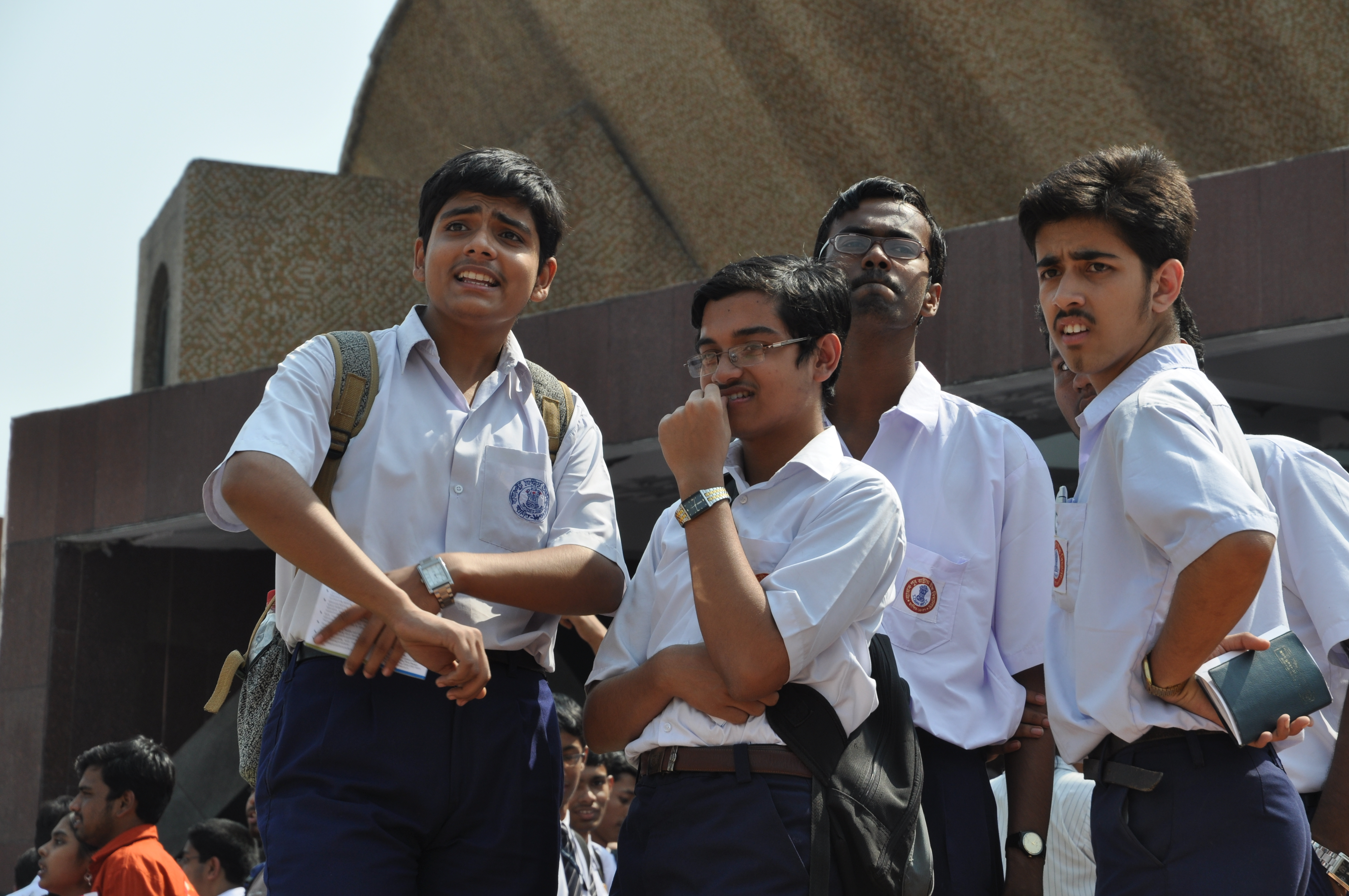 The school students in different expressions at Science City, Kolkata.